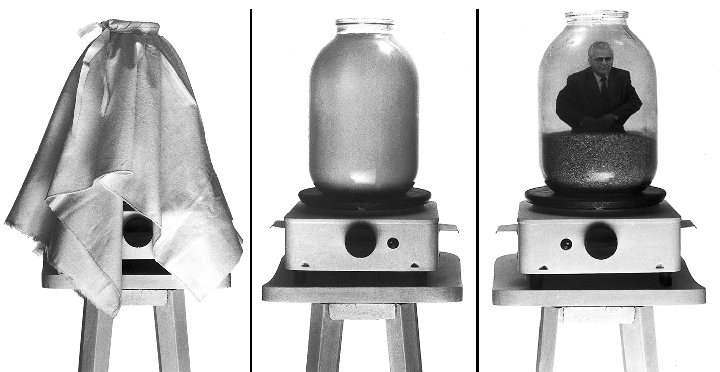 Art object fro Masoch Fund's action in National Art Museum of Ukraine, 1994